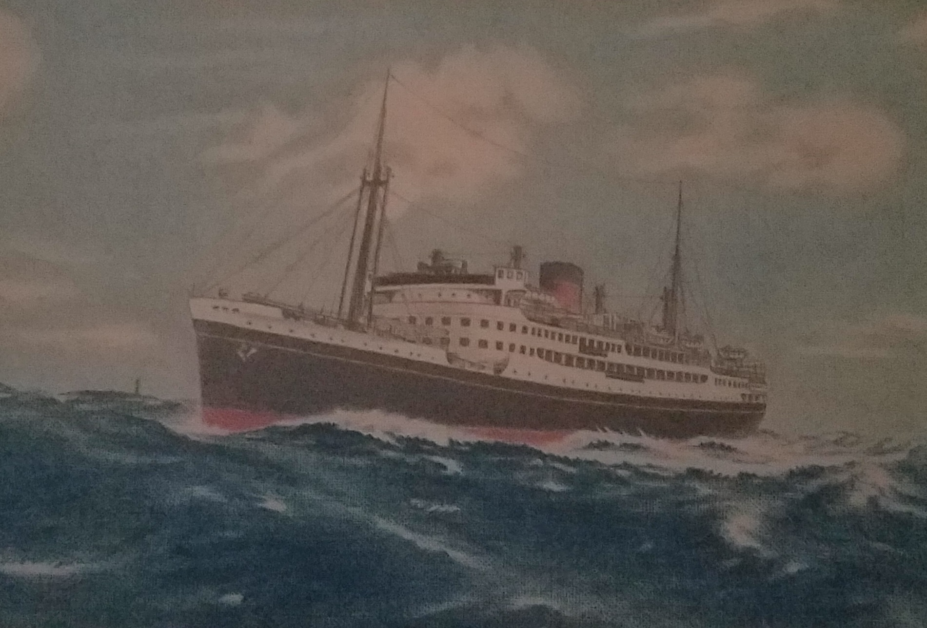 MV KANIMBLA off Gabo Island 16 June 1937 Painting by E A Miller 1940